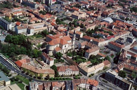 Szombathely, Hungary, aerialphotography